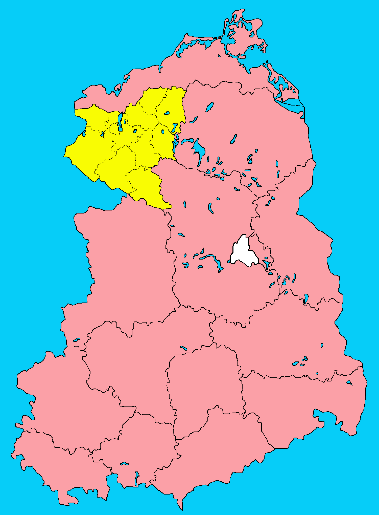 Map of the District of Schwerin in the German Democratic Republic (East Germany). The districts existed between 1952 and 1990. Most of the district's area belongs now to the State of Mecklenburg-Vorpommern.